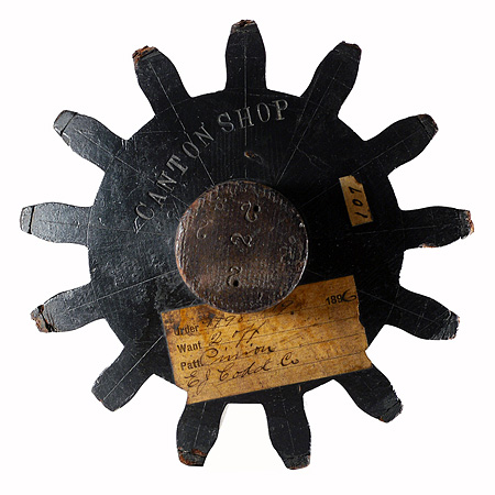 A front view of a wooden pattern of a gear.